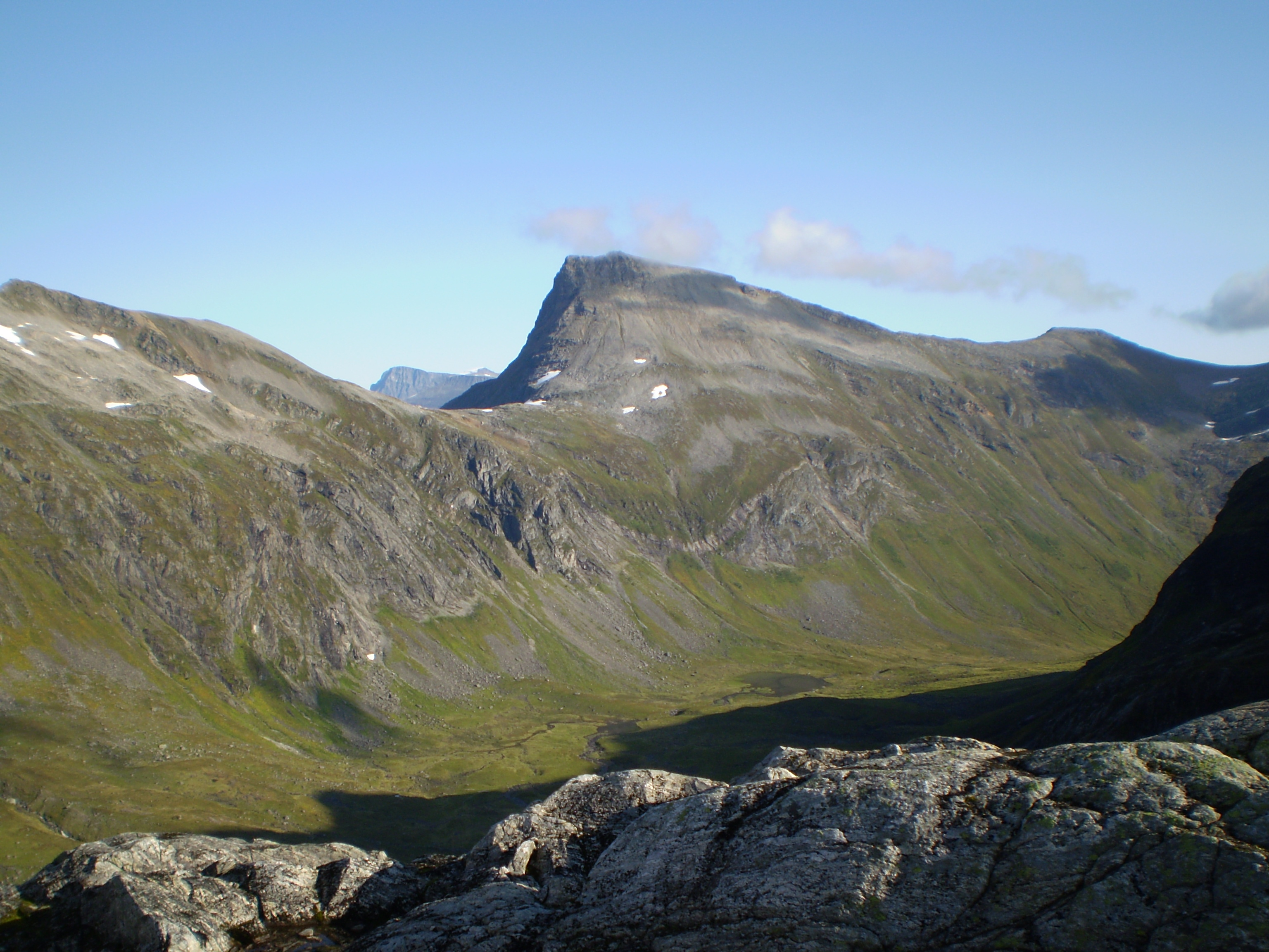 Mountain in Norway